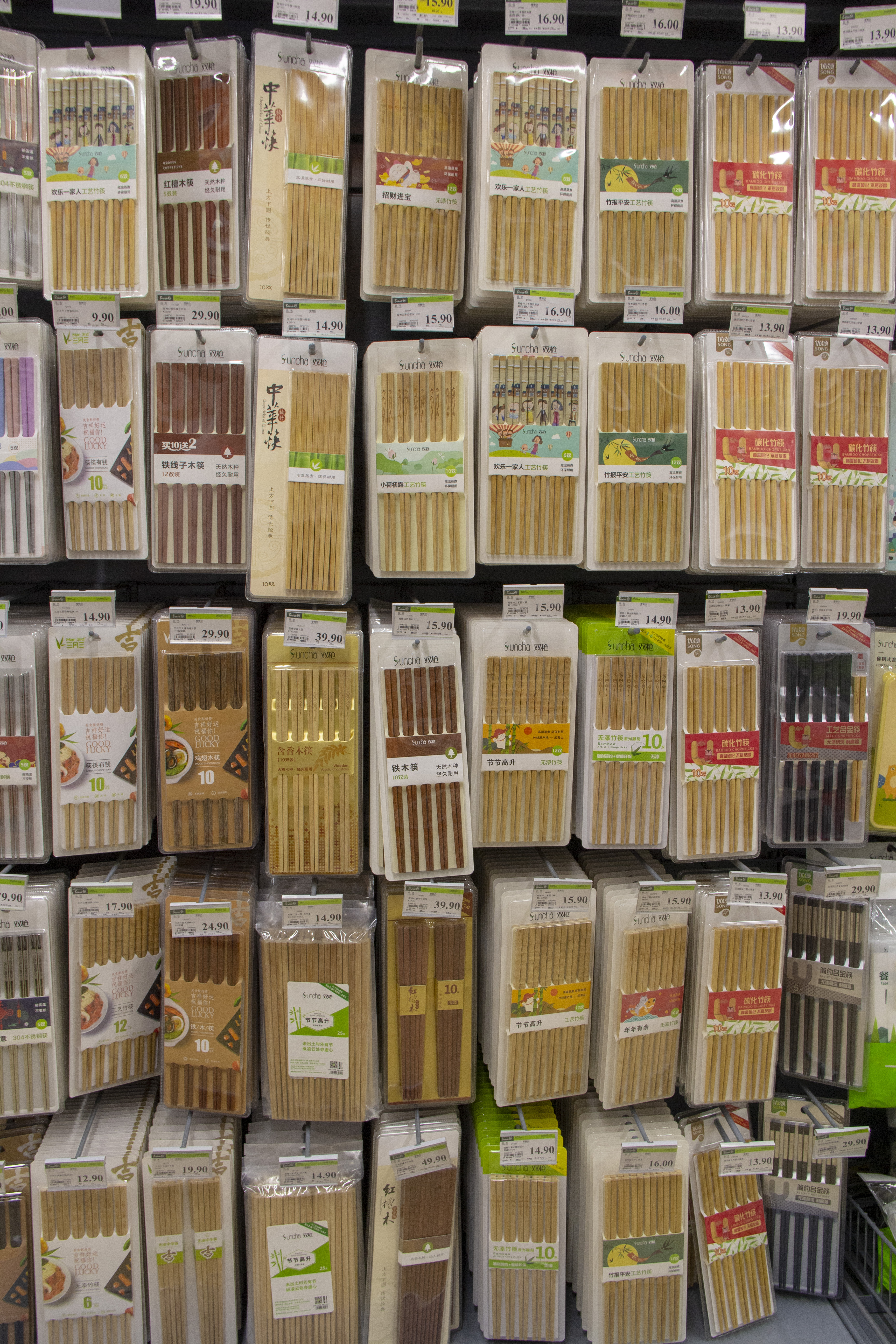 chopsticks